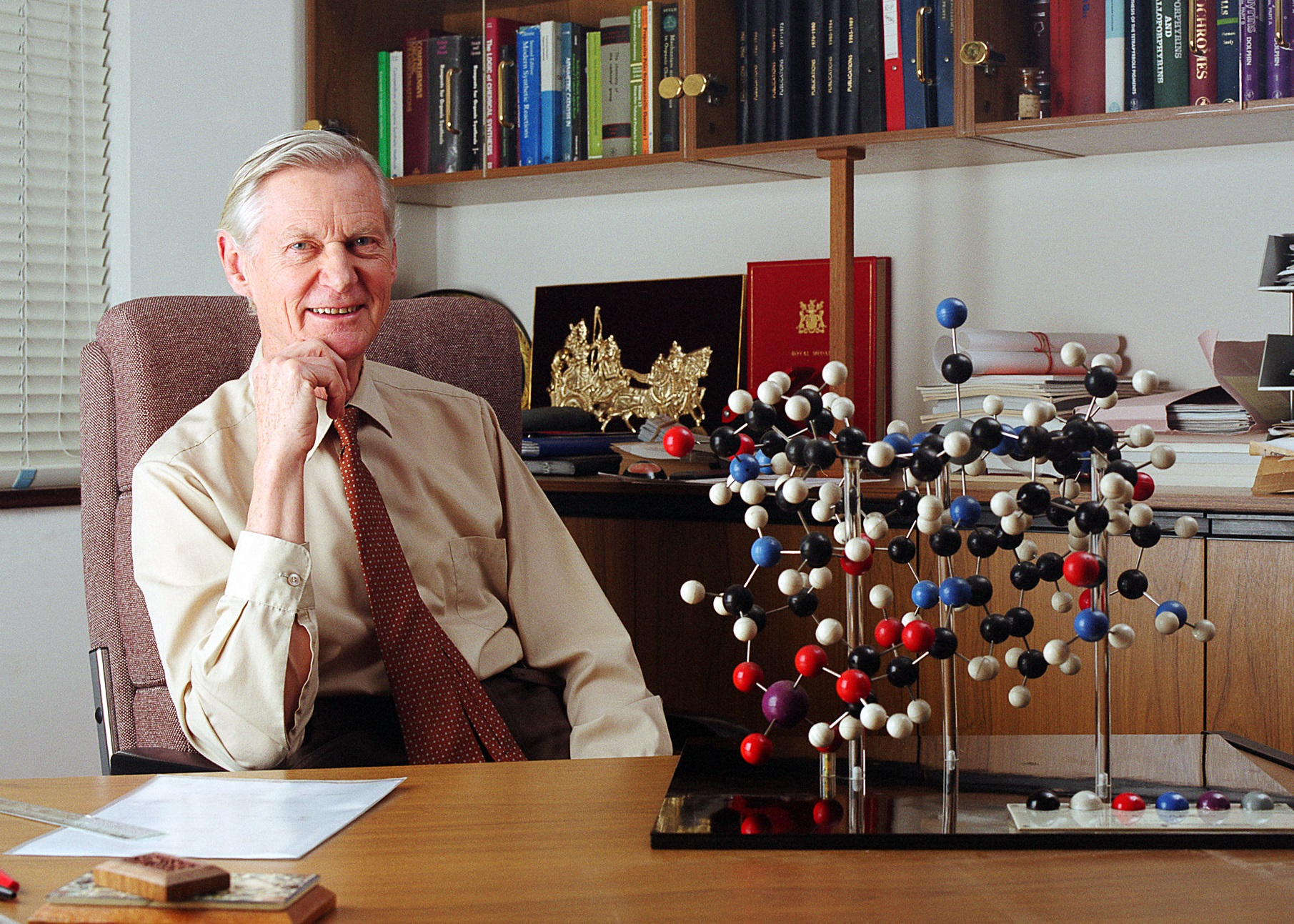 Prof. Sir Alan Battersby (4 March 1925 – 10 February 2018), University of Cambridge 1702 Professor of Chemistry 1988-1992.